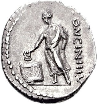 Basic data: C. Cassius Longinus (issuer). 63 BC. AR Denarius (3.75 g, 4h). Rome mint. Obv.: Veiled and draped bust of Vesta left; C before, kylix behind. Rev.: LONGIN III. V, voter standing left, dropping ballot marked V (Uti rogas) into cista at left. References: Crawford 413/1; Sydenham 935; Kestner 3407; BMCRR Rome 3930; Cassia 10.